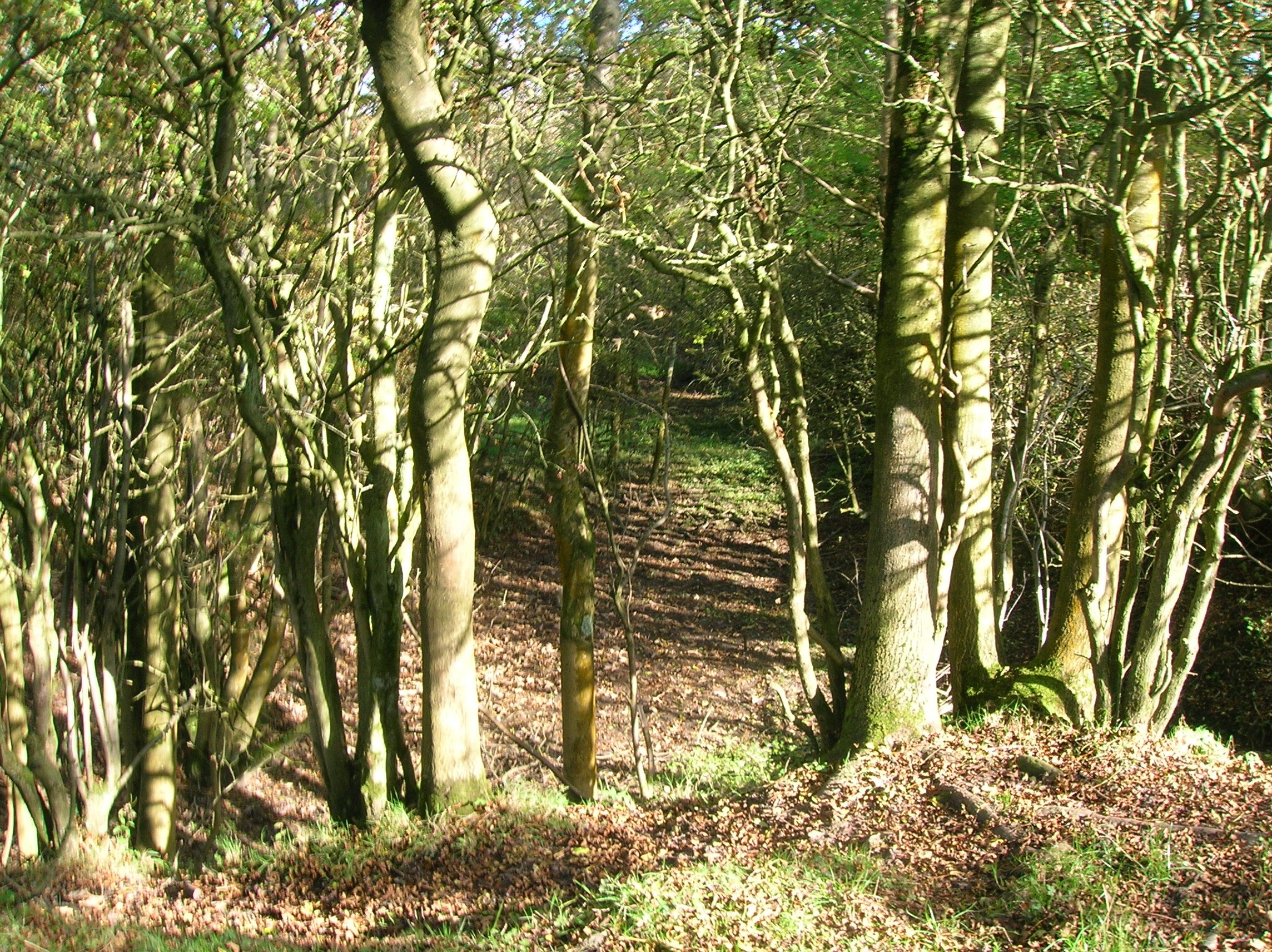 The site of the Goldcraigs freestone quarry at Goldcraigs, near Monkredding, Kilwinning, North Ayrshire, Scotland